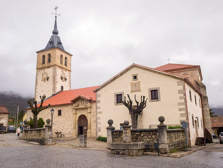 Iglesia de San Andrés apostol.